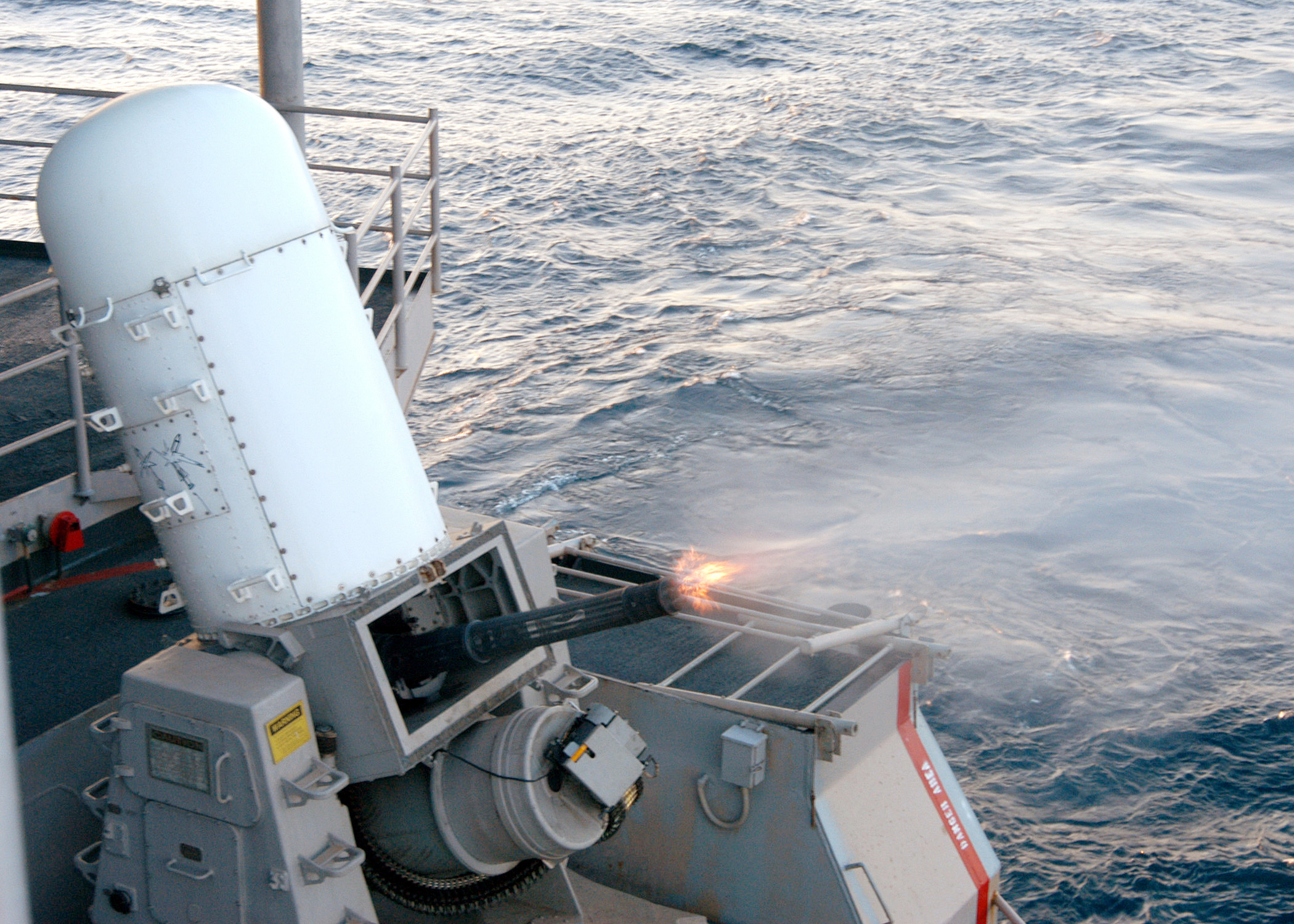 Atlantic Ocean (April 4, 2006) - USS John F. Kennedy (CV 67) conducts a Phalanx Close-In Weapons System (CIWS) live fire training exercise. The CIWS is a fast-reaction, rapid-fire 20-millimeter gun system that provides ships of the U.S. Navy with a terminal defense against anti-ship missiles and littoral warfare threats that have penetrated other fleet defenses. Phalanx automatically detects, tracks and engages anti-air warfare threats such as anti-ship missiles and aircraft. Kennedy is currently conducting proficiency training off the Florida coast. U.S. Navy photo by Photographer’s Mate 3rd Class Erica Treider (RELEASED)